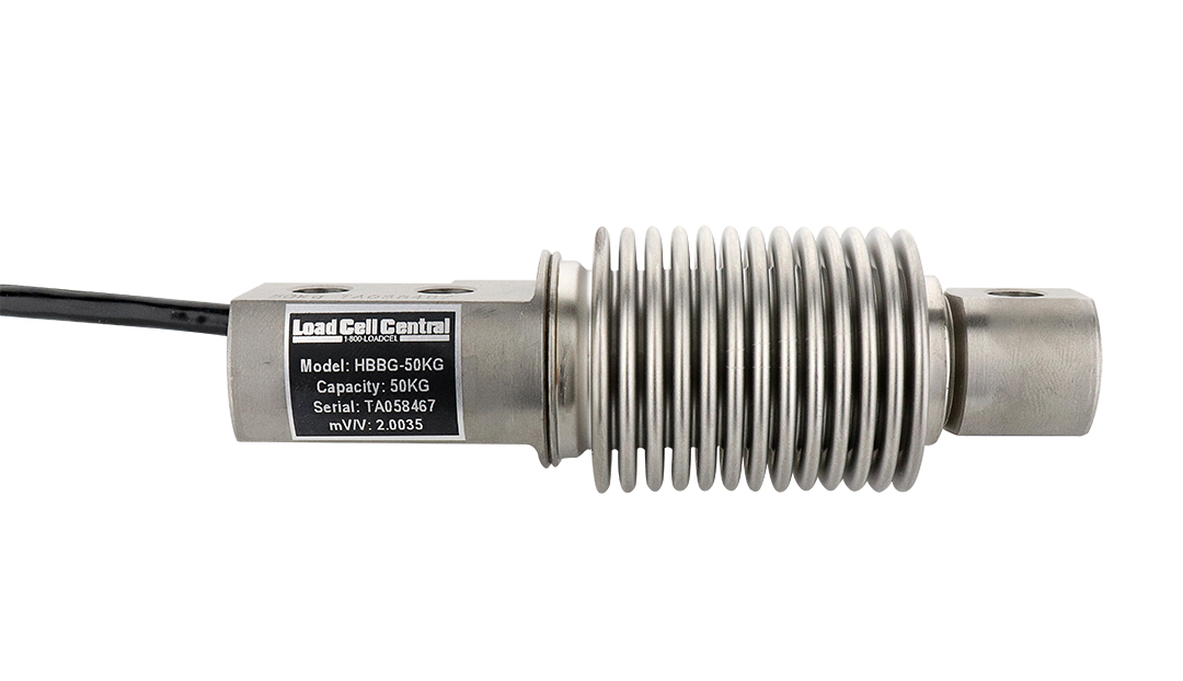 HBBG stainless steel bellows beam load cell